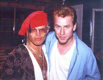 Musician Billy Idol (left) and comedian Jimmy Shubert